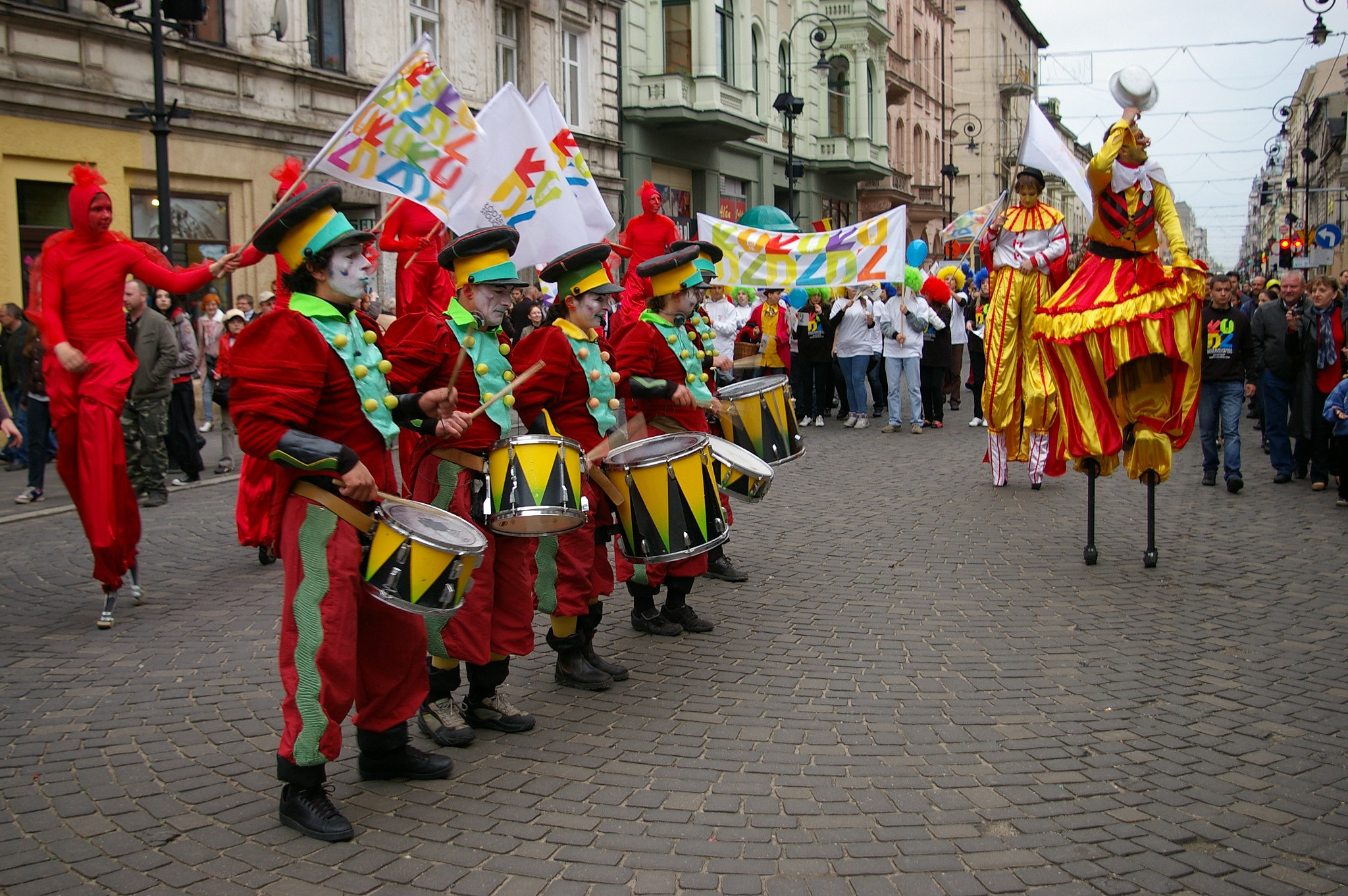 Święto Łodzi 2010 Trans Express w czasie święta Łodzi na ulicy Piotrkowskiej. Personality rights warning This work depicts one or more identifiable persons. The use of depictions of living or deceased persons may be restricted by laws regarding personality rights. The extent of these restrictions depends on jurisdiction. Personality rights restrictions apply independently of copyright. Before using this content, please ensure that the intended use does not infringe any personality rights under applicable laws. You are solely responsible for ensuring that you do not infringe someone else's personality rights. See our general disclaimer.